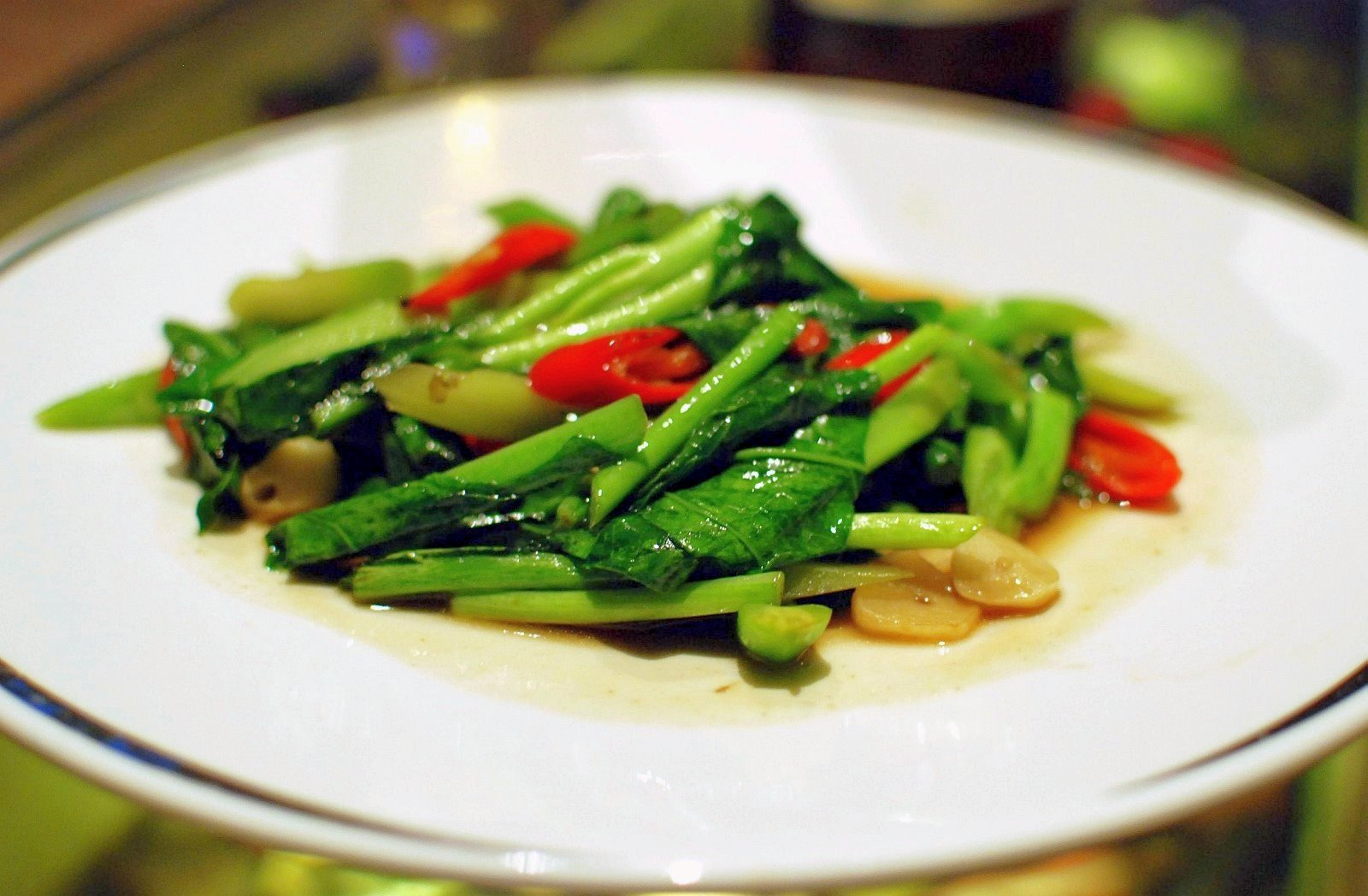 Phak kana nam man hoi: Chinese broccoli (phak kana, Thai: ผักคะน้า) with oyster sauce (nam man hoi, Thai: น้ำมันหอย). Originally a Chinese dish, it has been adapted to Thai taste by adding sliced chillies and fish sauce to the recipe, and by omitting the ginger.Ingredients: Chinese broccoli (a.k.a. gailan, Brassica oleracea var. alboglabra), oyster sauce, sliced garlic, fish sauce, sliced chillies, white pepper.